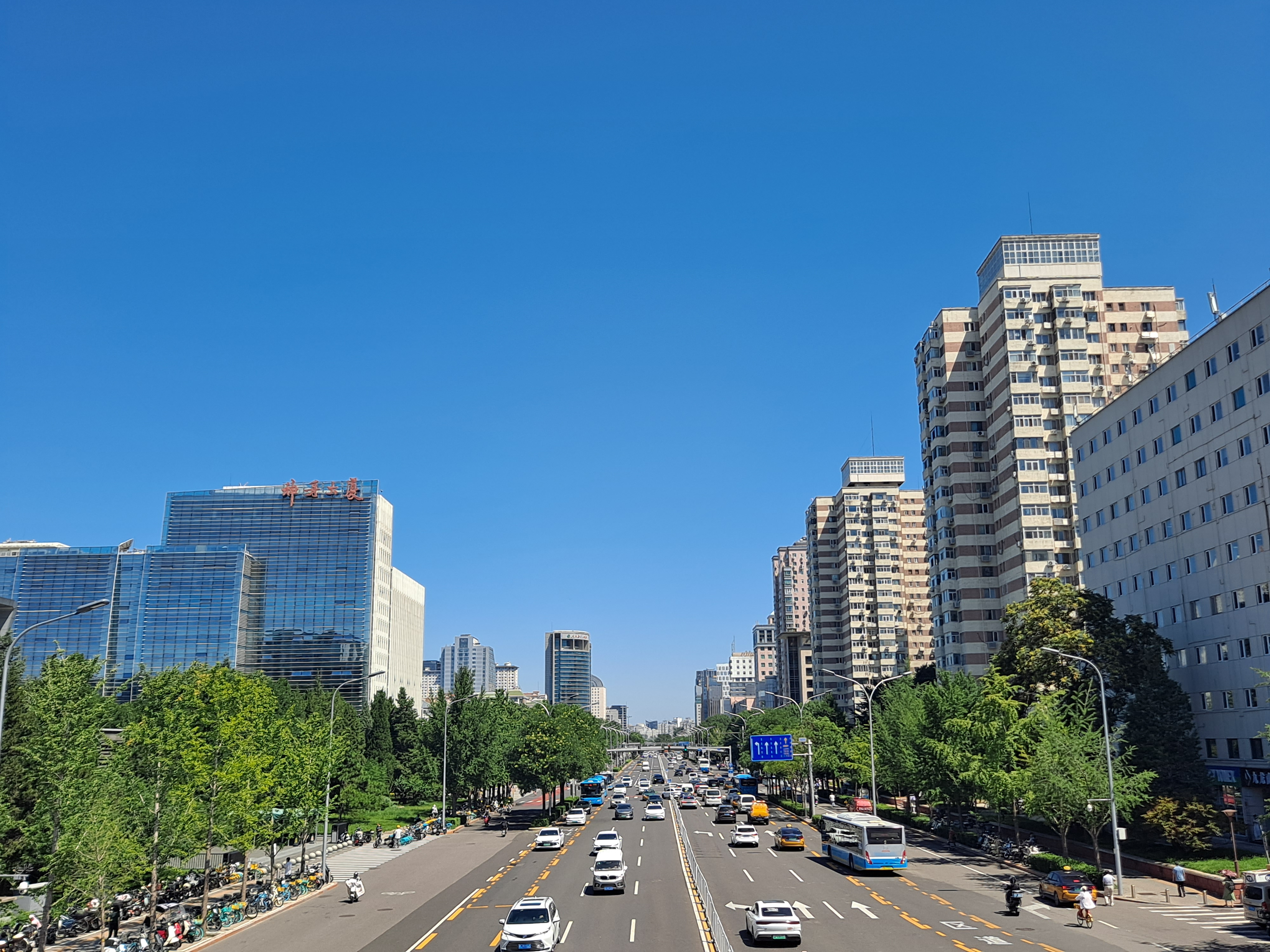 Zhongguancun Ave, Beijing